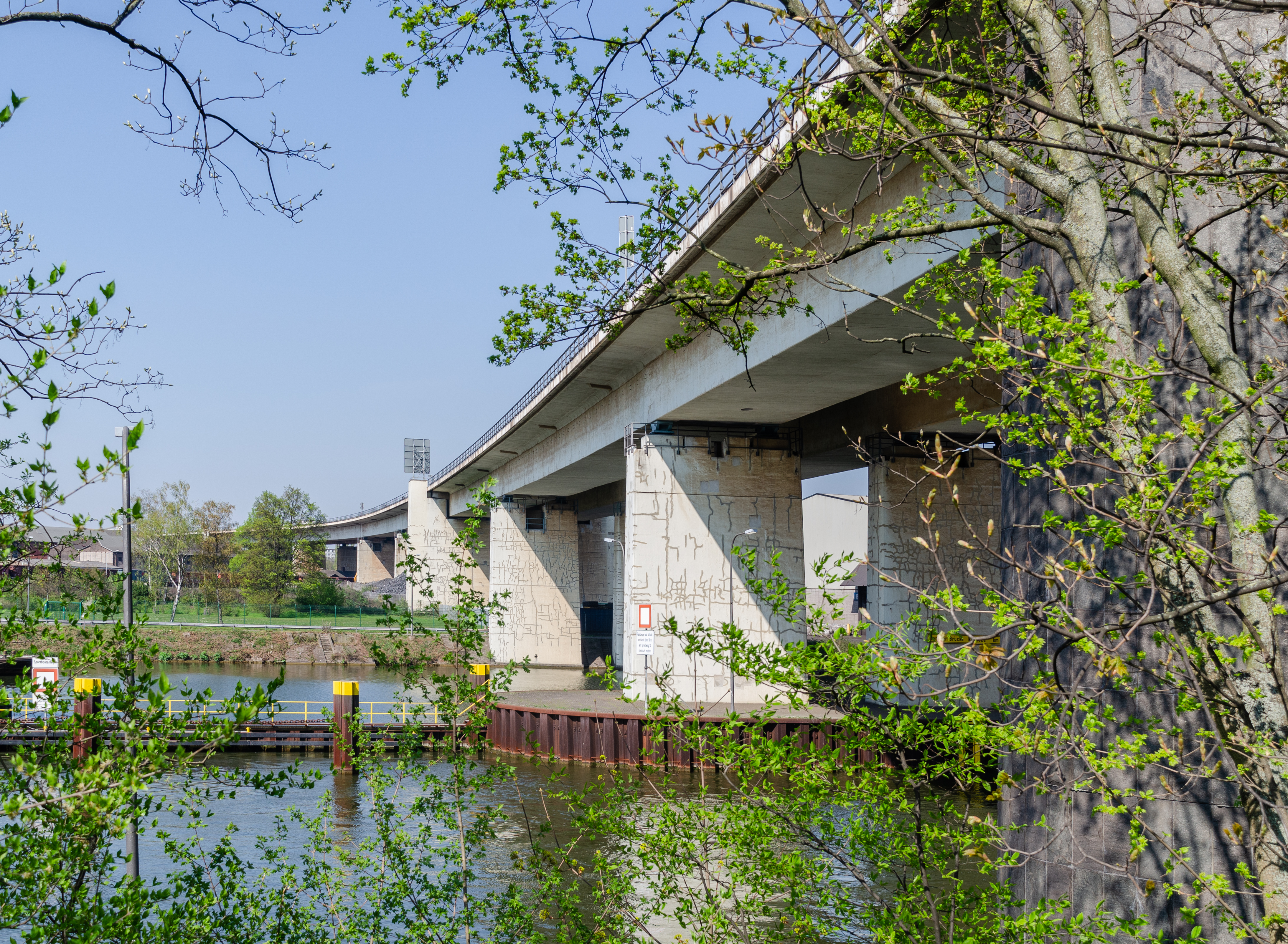 Duisburg (North Rhine-Westphalia, Germany) – borough Meiderich/Beeck, district Meiderich – Berlin Bridge